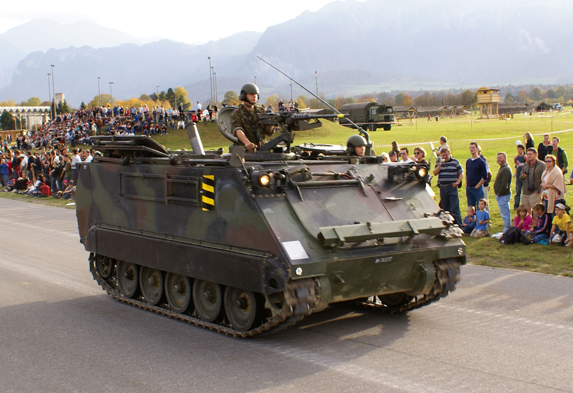 Swiss Army. 12 cm mortar carrier based on M113 APC. Participating in the "Steel Parade" of the 2006 Army Days, Thun.